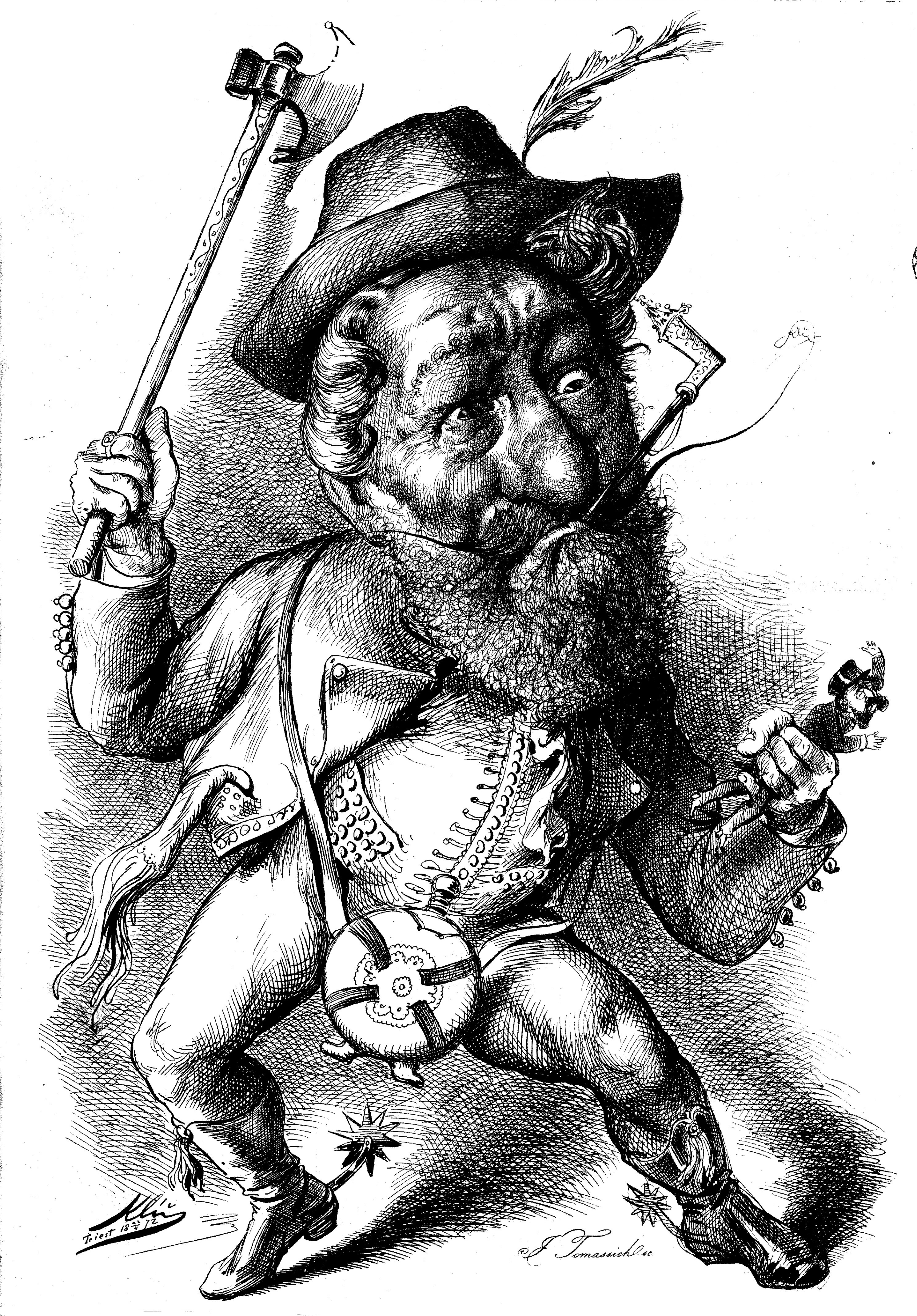 Cartoon of "Patay Pista" (probably Patay István 1808-1878), Hungarian politician.